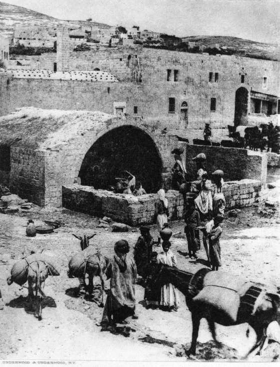 Allegedly the fountain from which Mary drew water for her family, in biblical times